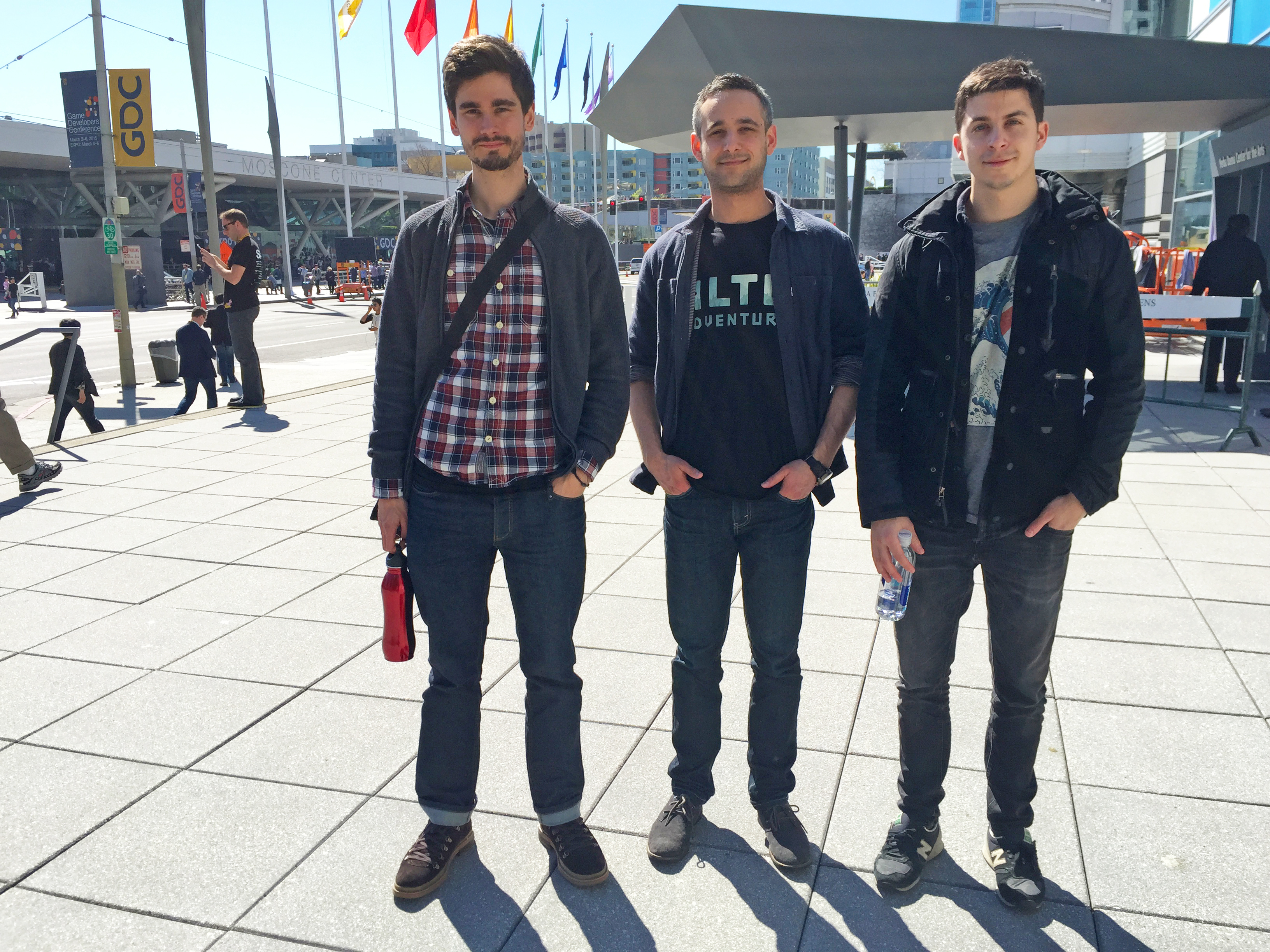 Alto's Adventure development team at GDC 2015, taken on an iPhone 6, from the left: Harry Nesbitt, Ryan Cash, Jordan Rosenberg